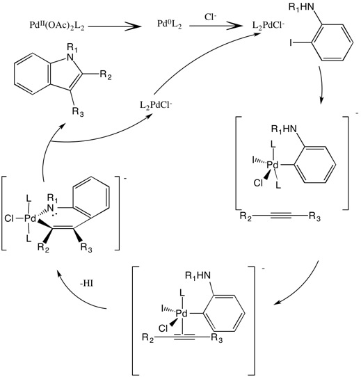 The Mechanism of the Larock Indole Synthesis from Larock et al. 1998.